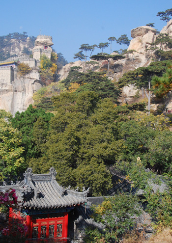 Yiwulu Mountain, Beiling City of Jinzhou City, Liaoning, China